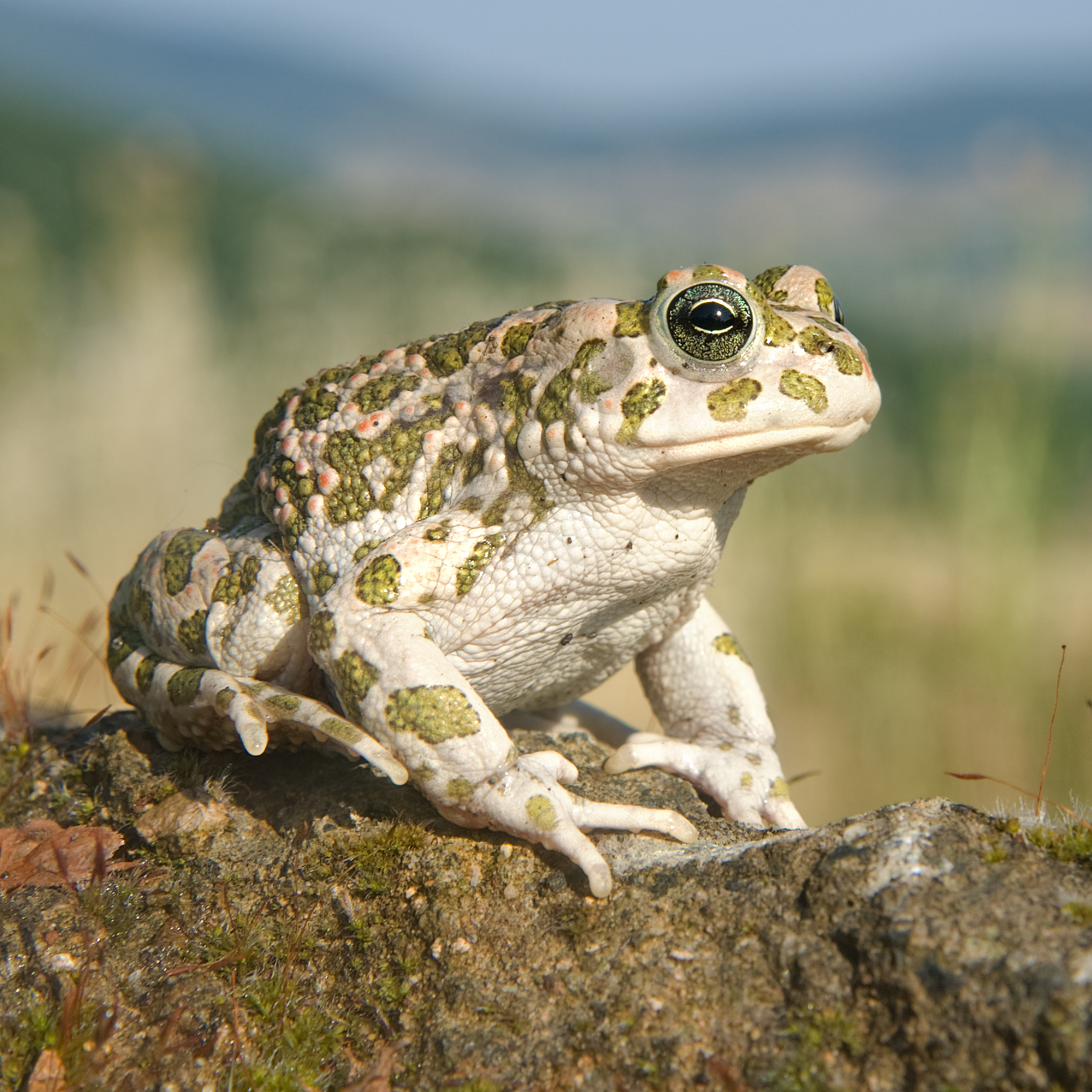 The Balearic green toad is a toad found in mainland Europe, Asia, and Northern Africa.